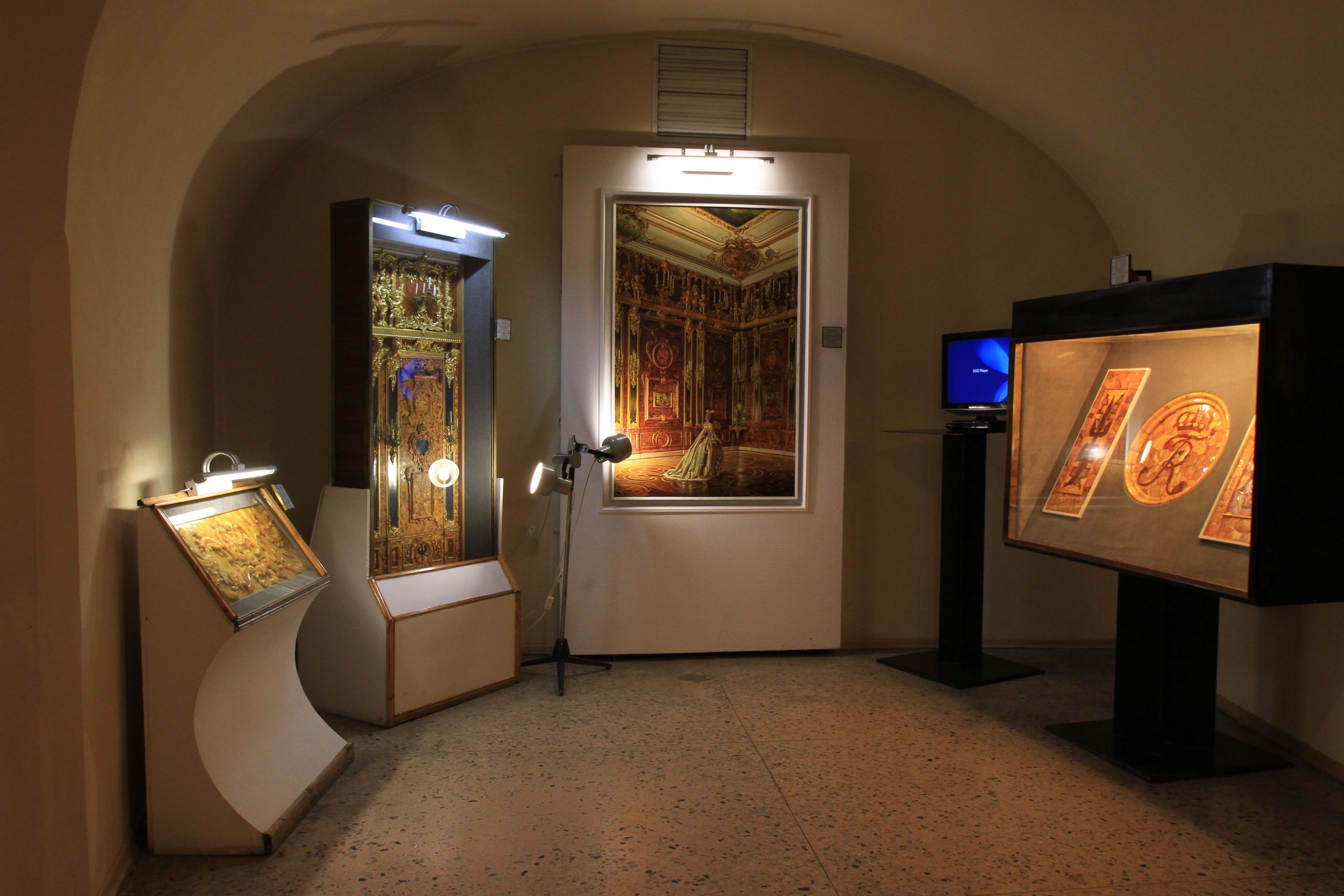 amberroom